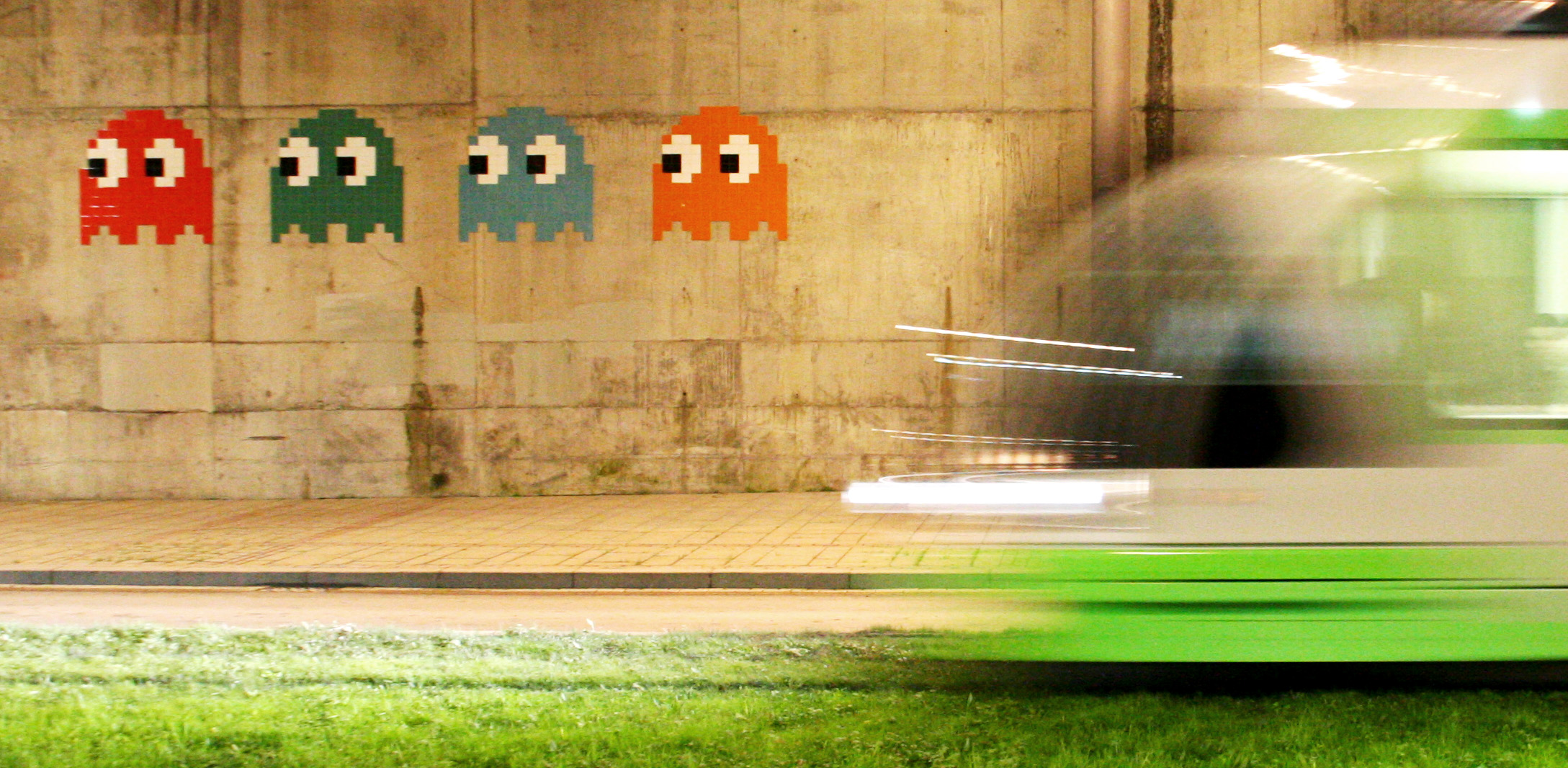 Pac Man mosaics BBO 24–27 (from left) in Bilbao near the Guggenheim Museum